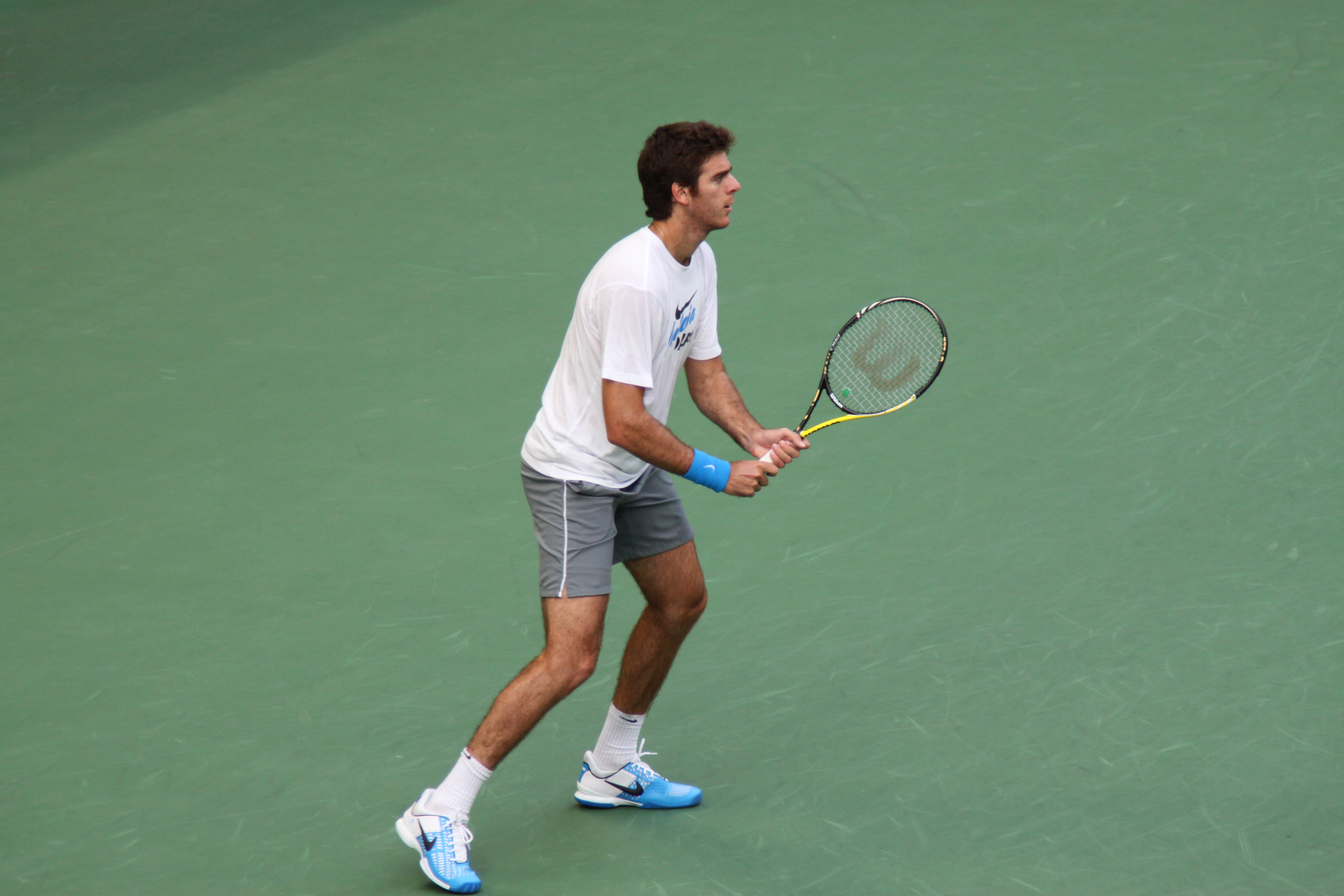 Juan Martín del Potro at 2010 Rakuten Japan Open Tennis Championships, Tokyo, Japan